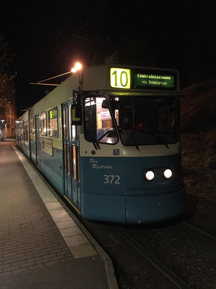 Tram in Gothenburg, Sweden